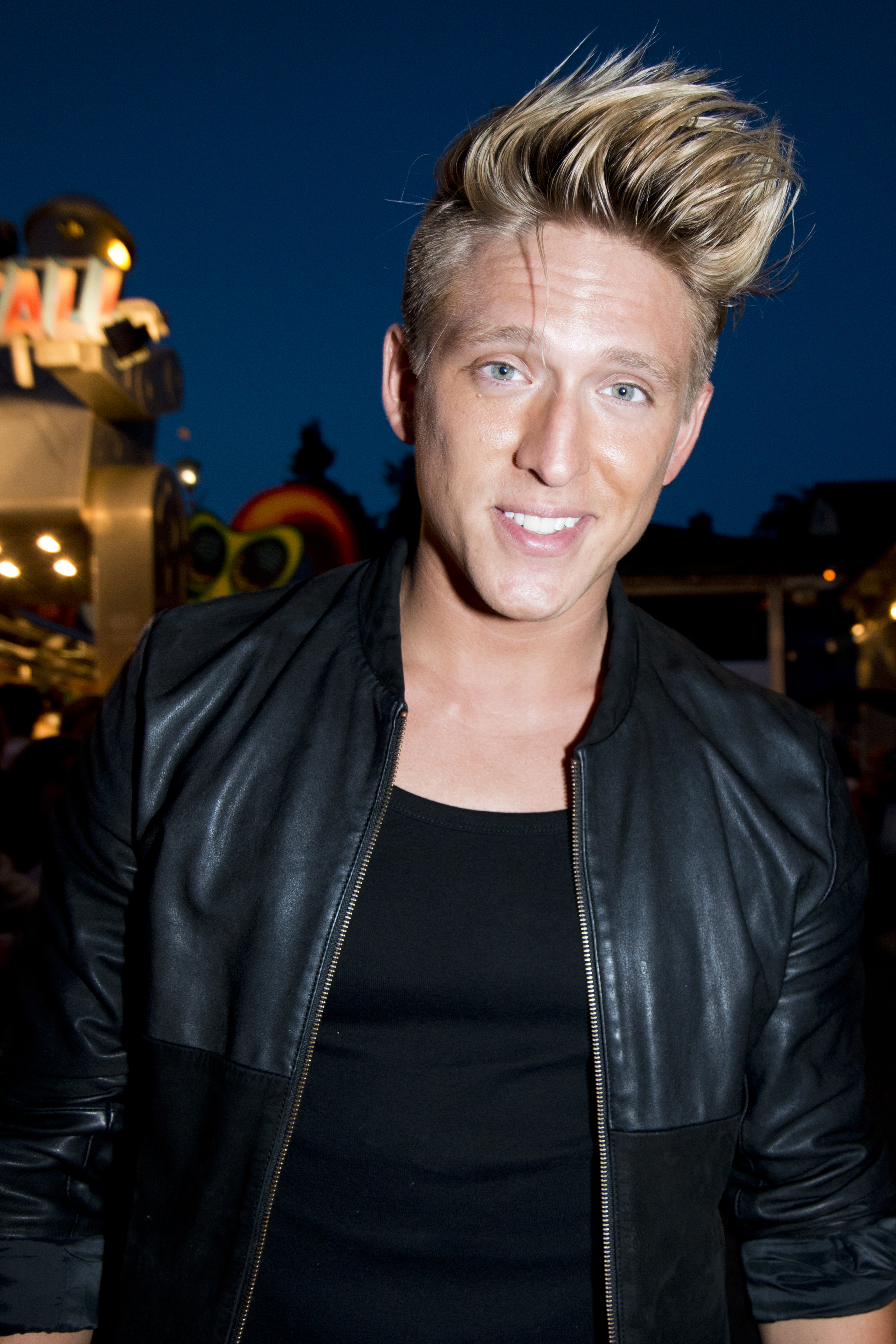 Danny Saucedo at Sommarkrysset, Gröna Lund (Stockholm)